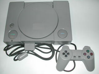 PlayStation console SCPH-5500 and PlayStation Controller.